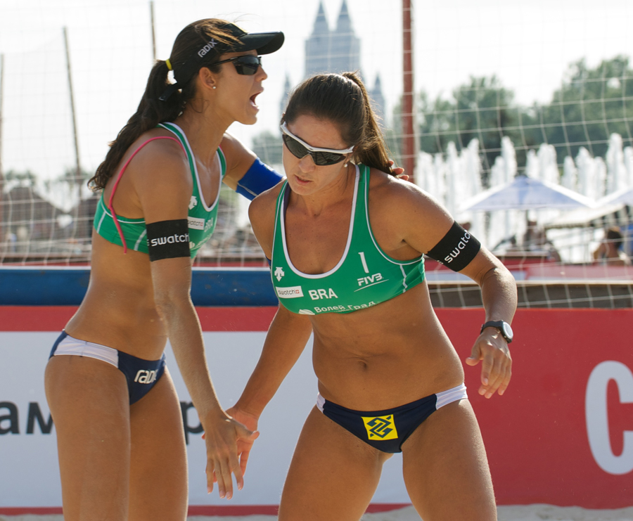 Grand Slam Moscow 2011